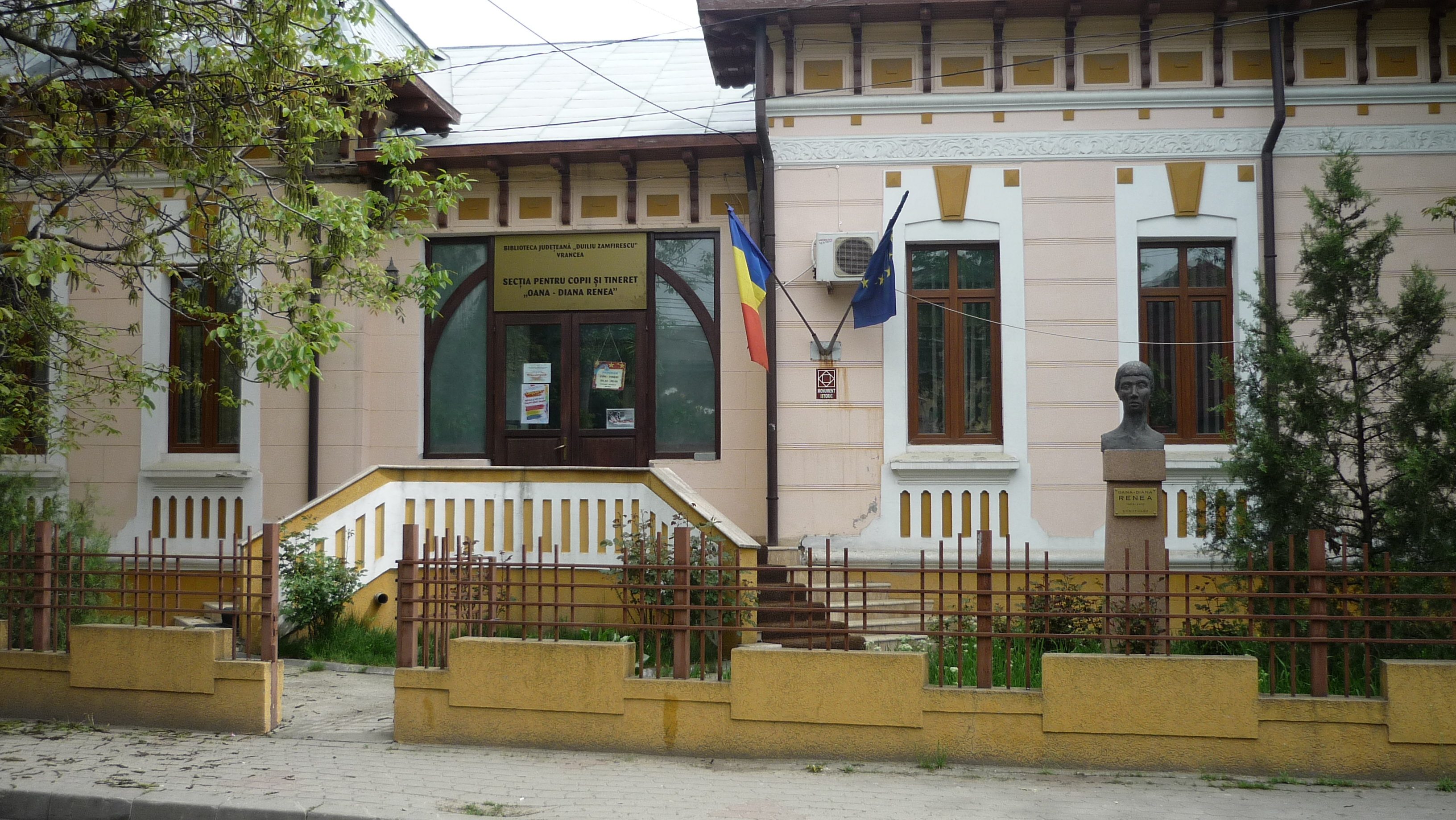 Miniludotecă Sală multimedia, acces gratuit INTERNET Ecobiblioteca-lectură şi activităţi în aer liber